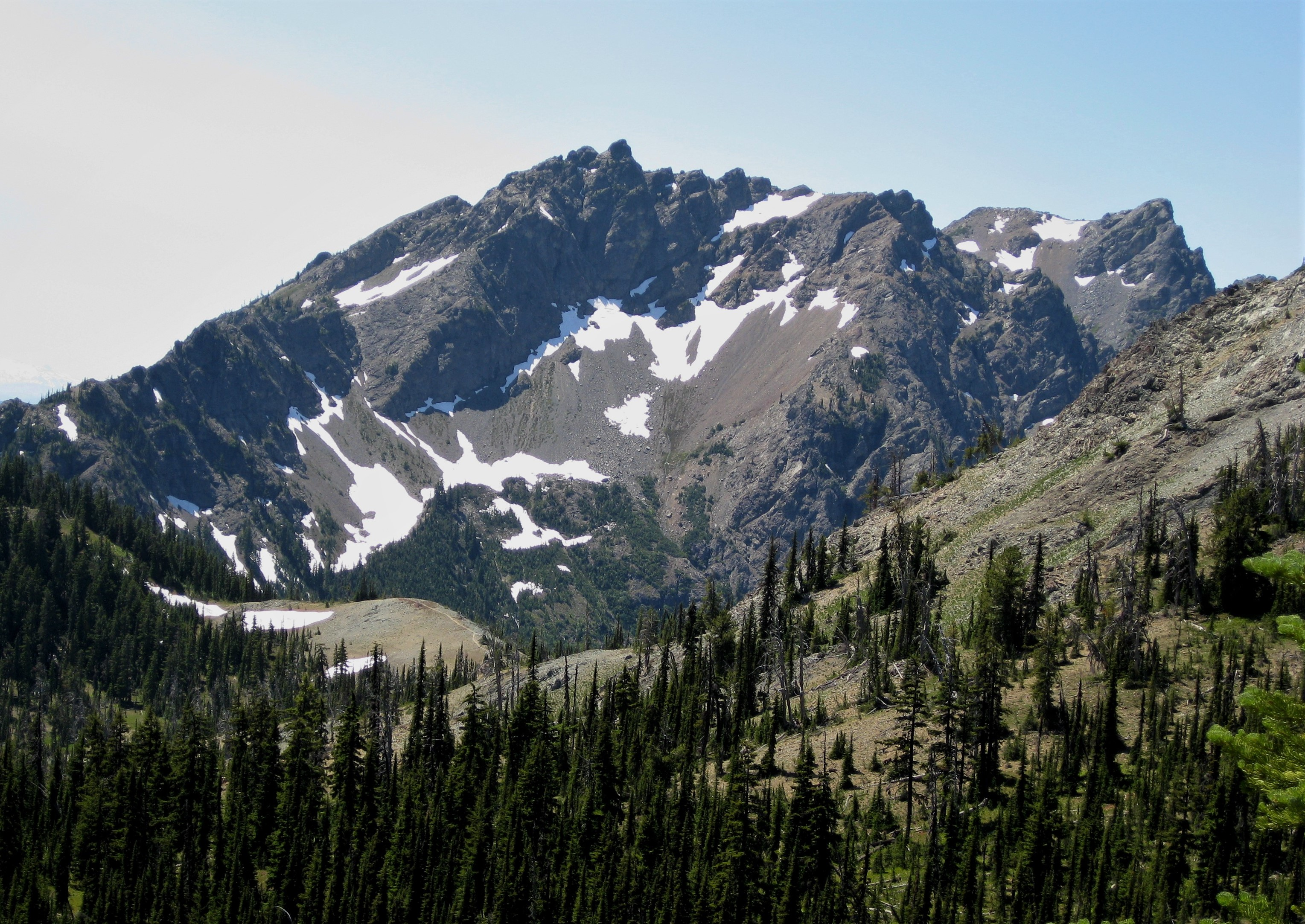 Hawkins Mountain's northeast aspect seen from Lake Ann Pass